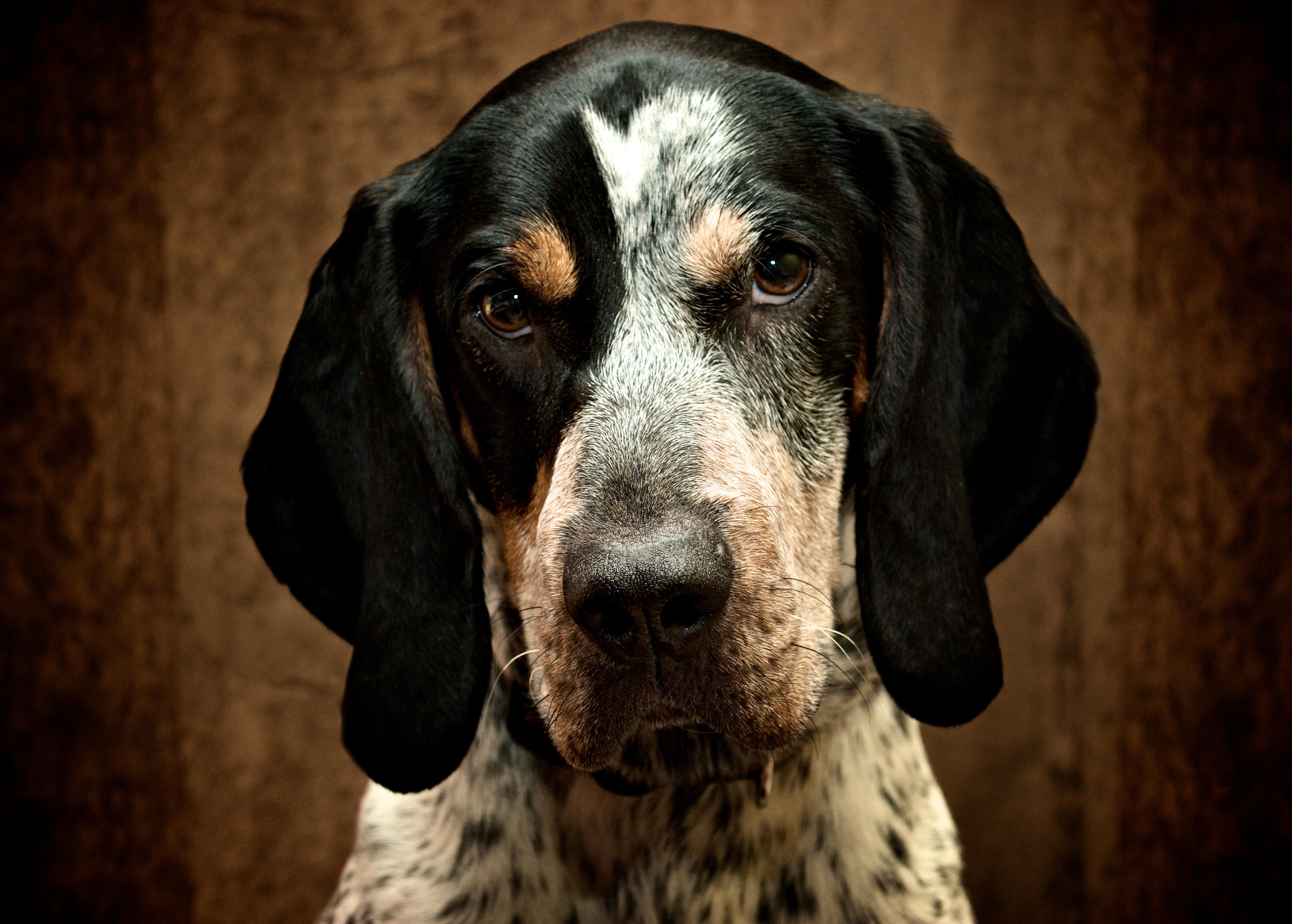 Harold using the power of his mind to take over the world...or make me give him a bisquit... probably that last thing.